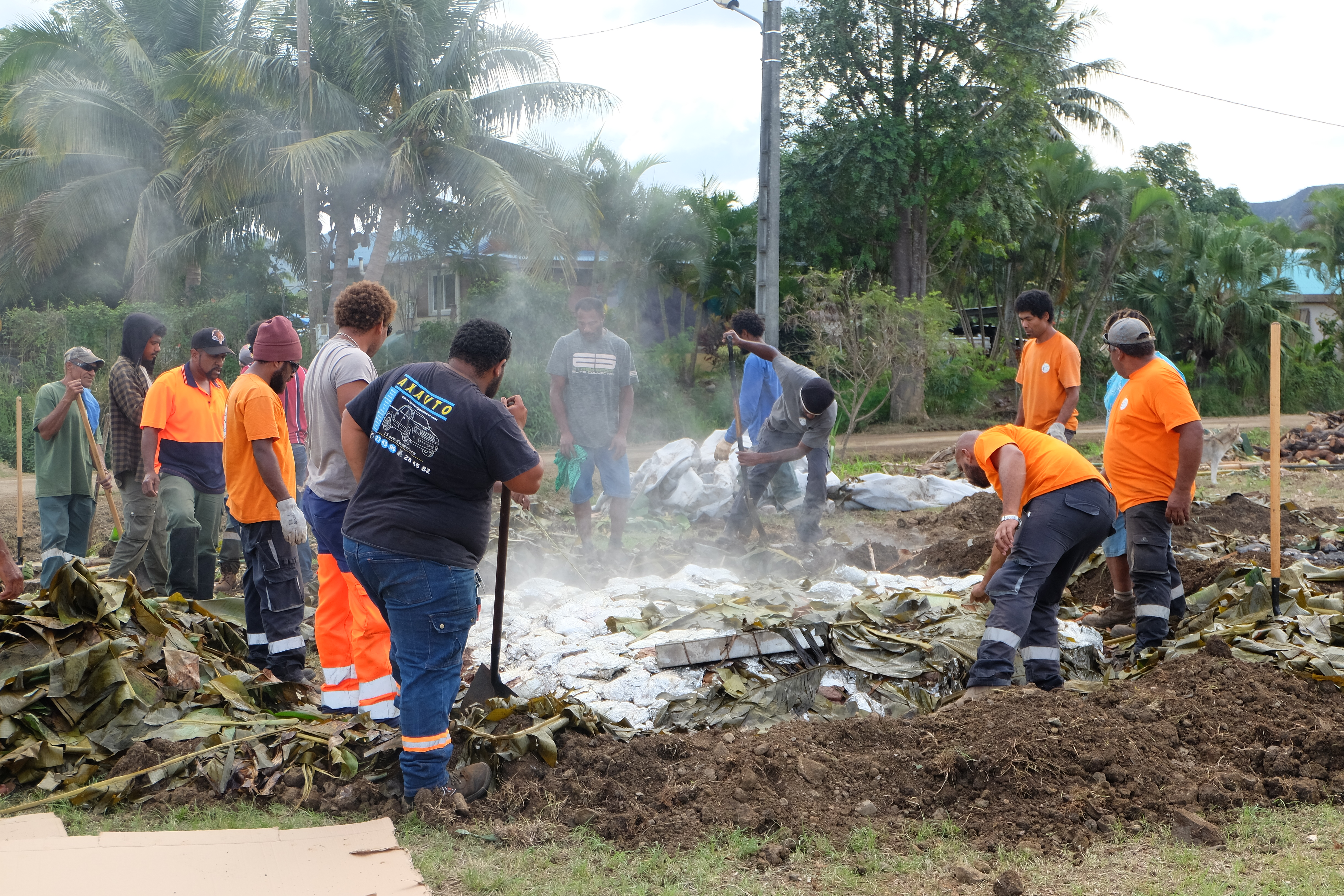 A traditionnal oven in New-Caledonia, dug in the ground and warmed by hot stones. The food is wrapped in either banana leaves or aluminium foil and covered.